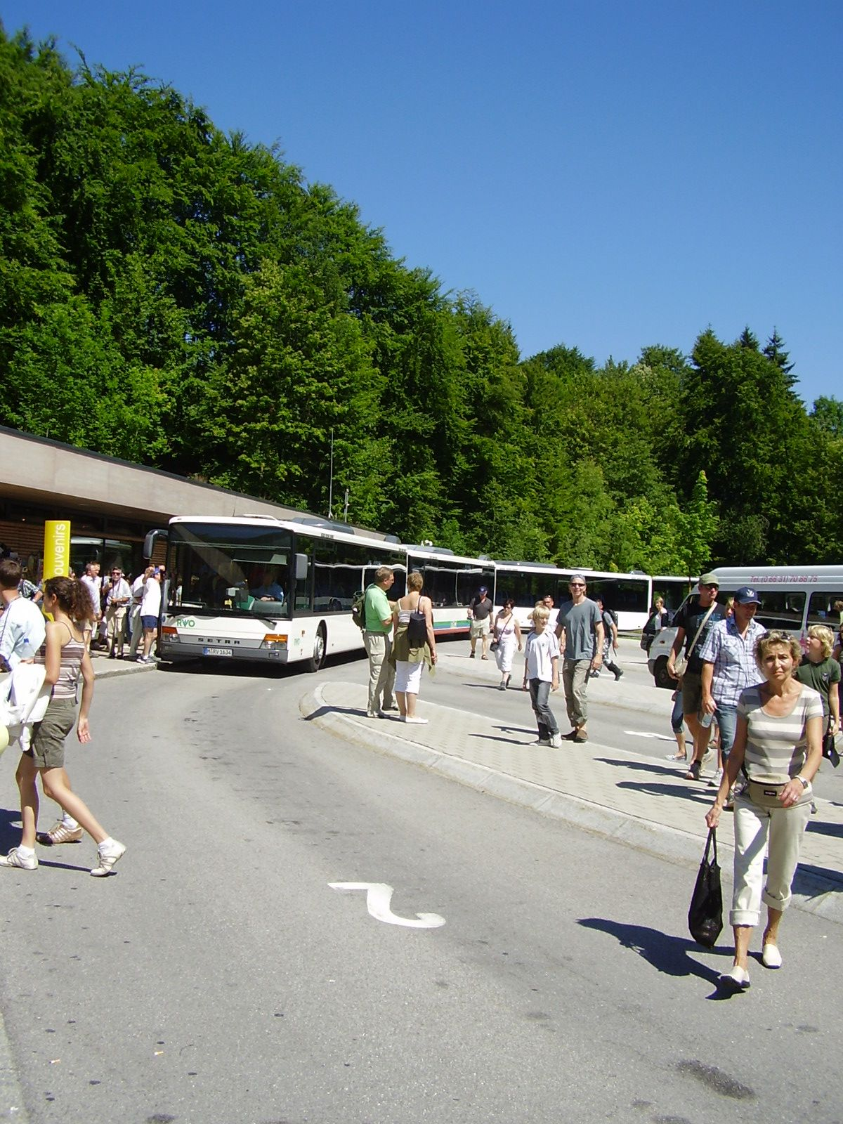 The RVO-park in Obersalzberg